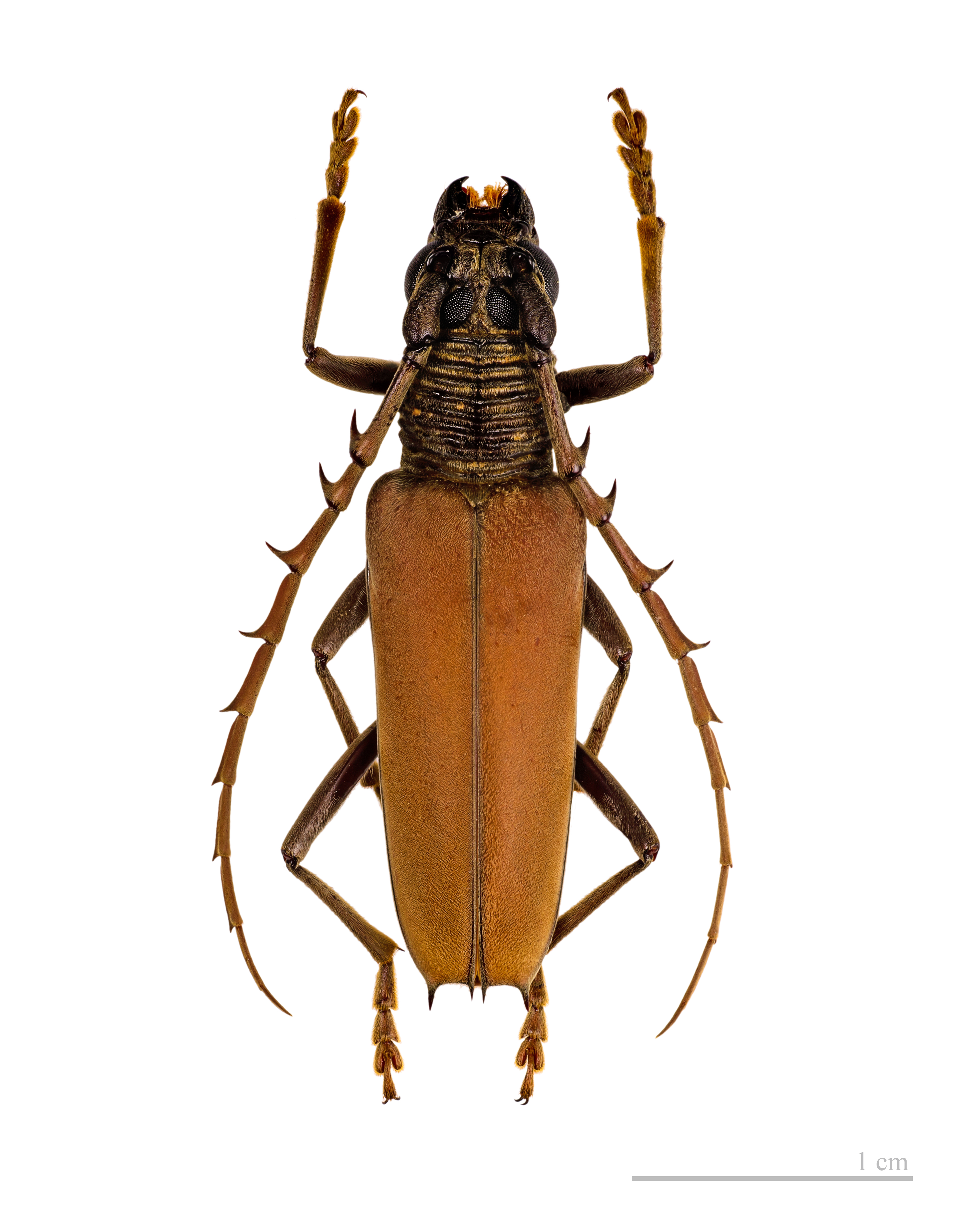 ♂ - Dorsal side Locality : Kourou, Mont des singes, French Guiana.